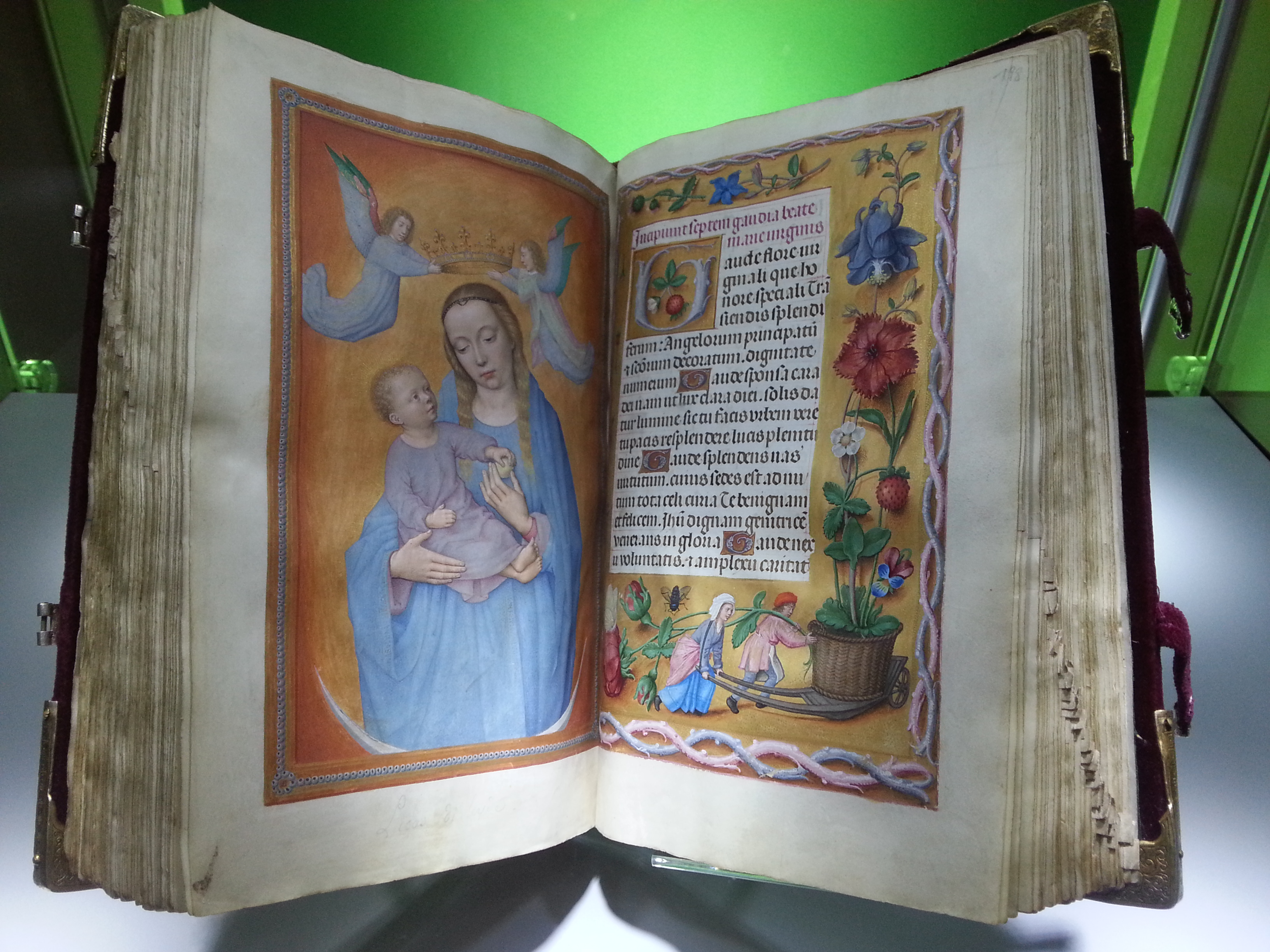 The Rothschild Prayerbook or Rothschild Hours, is an important Flemish illuminated manuscript book of hours, illuminated over the period c.1505 by a number of artists. It is now in a private collection